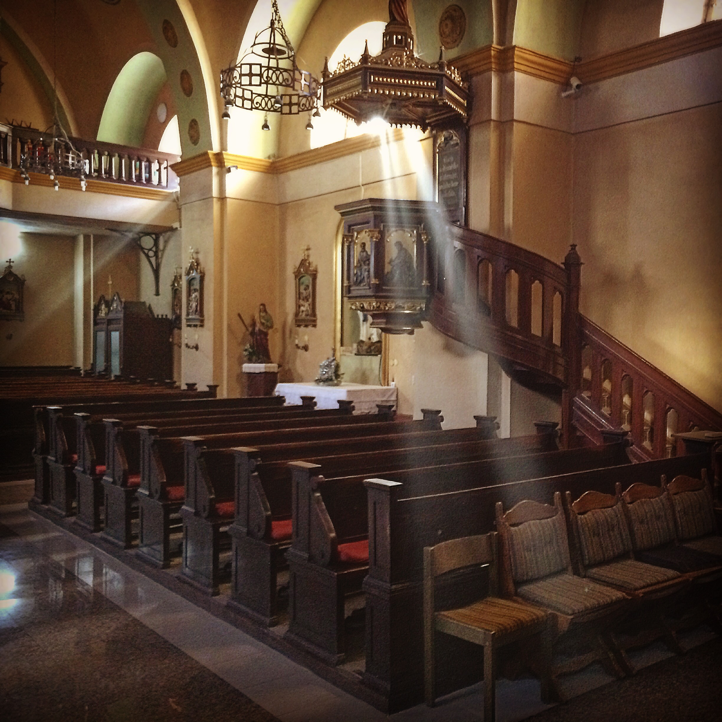 Mary of Snow indoor with sunlight beam.